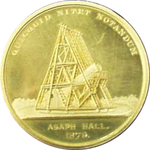 This is the actual Gold Medal of the Royal Astronomical Society that was awarded to Asaph Hall in 1879.